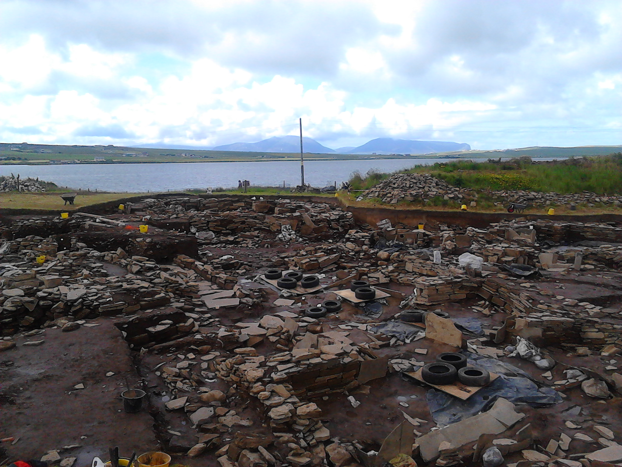 Ness of Brodgar dig 6.7.16. In this picture I'm standing on the viewing platform by structure #14, looking almost due south towards structure #12 and structure #10.